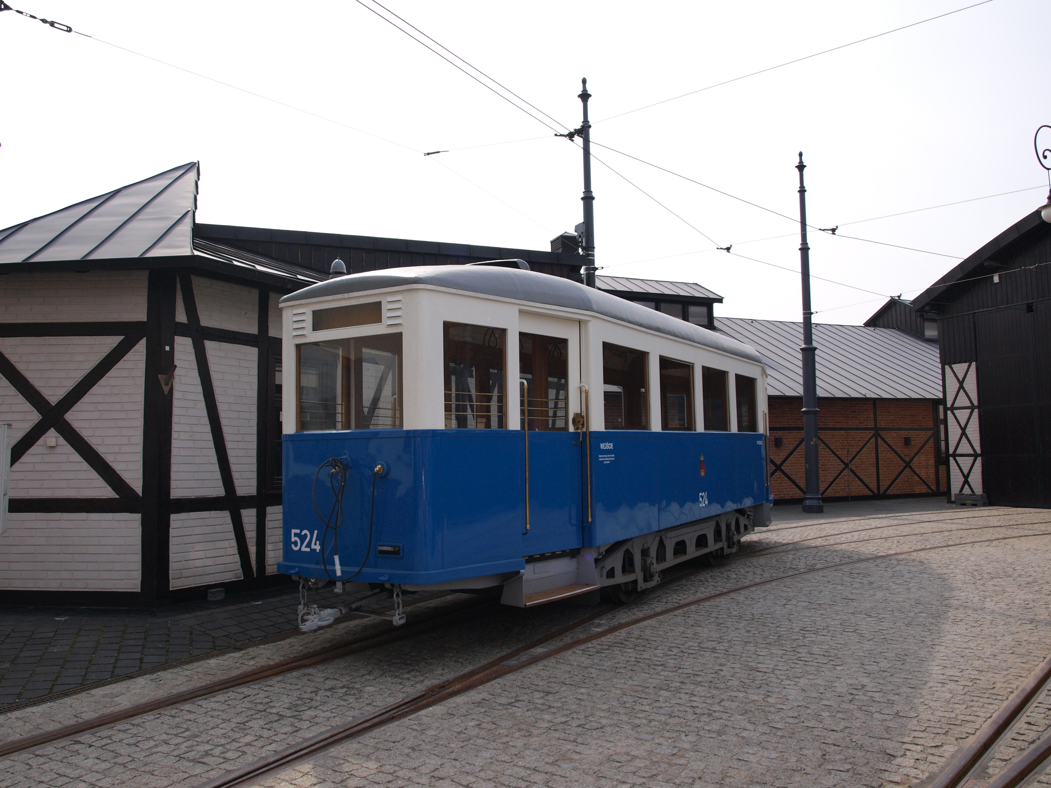 Historic PN2 tram trailer #524 from 1938/1939 in Kraków.